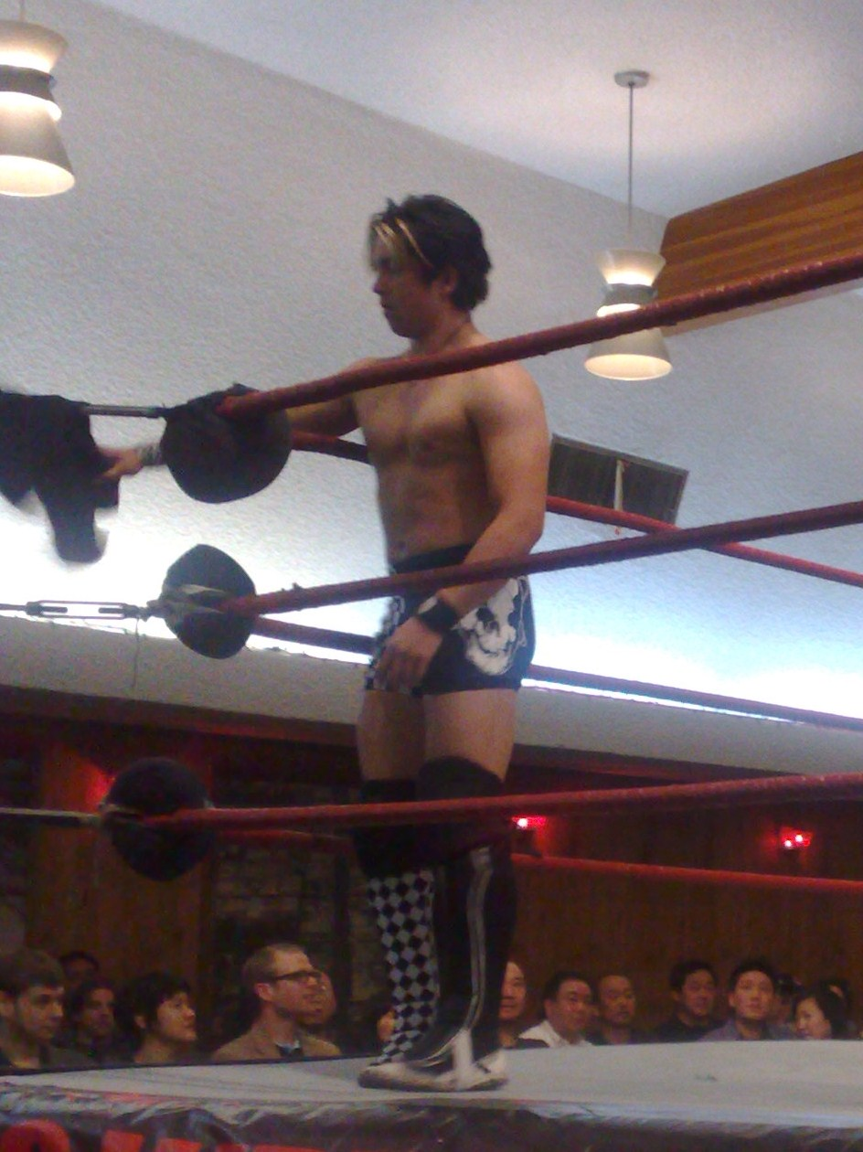 TJ Perkins at Pro Wrestling Guerrilla's Its a Gift and a Curse event in Reseda, CA on April 5, 2008.